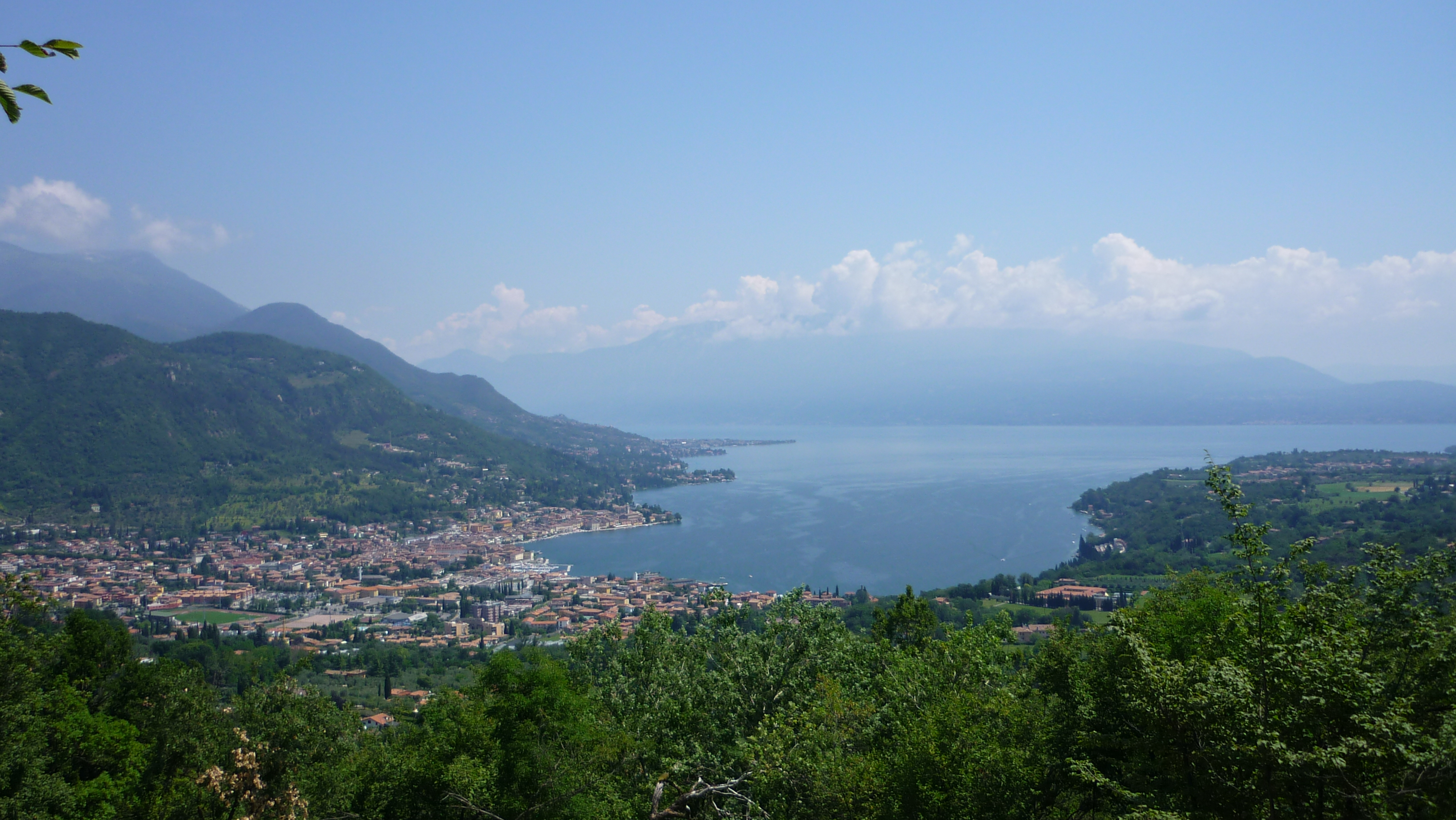 panorama of Salò (Garda lake)